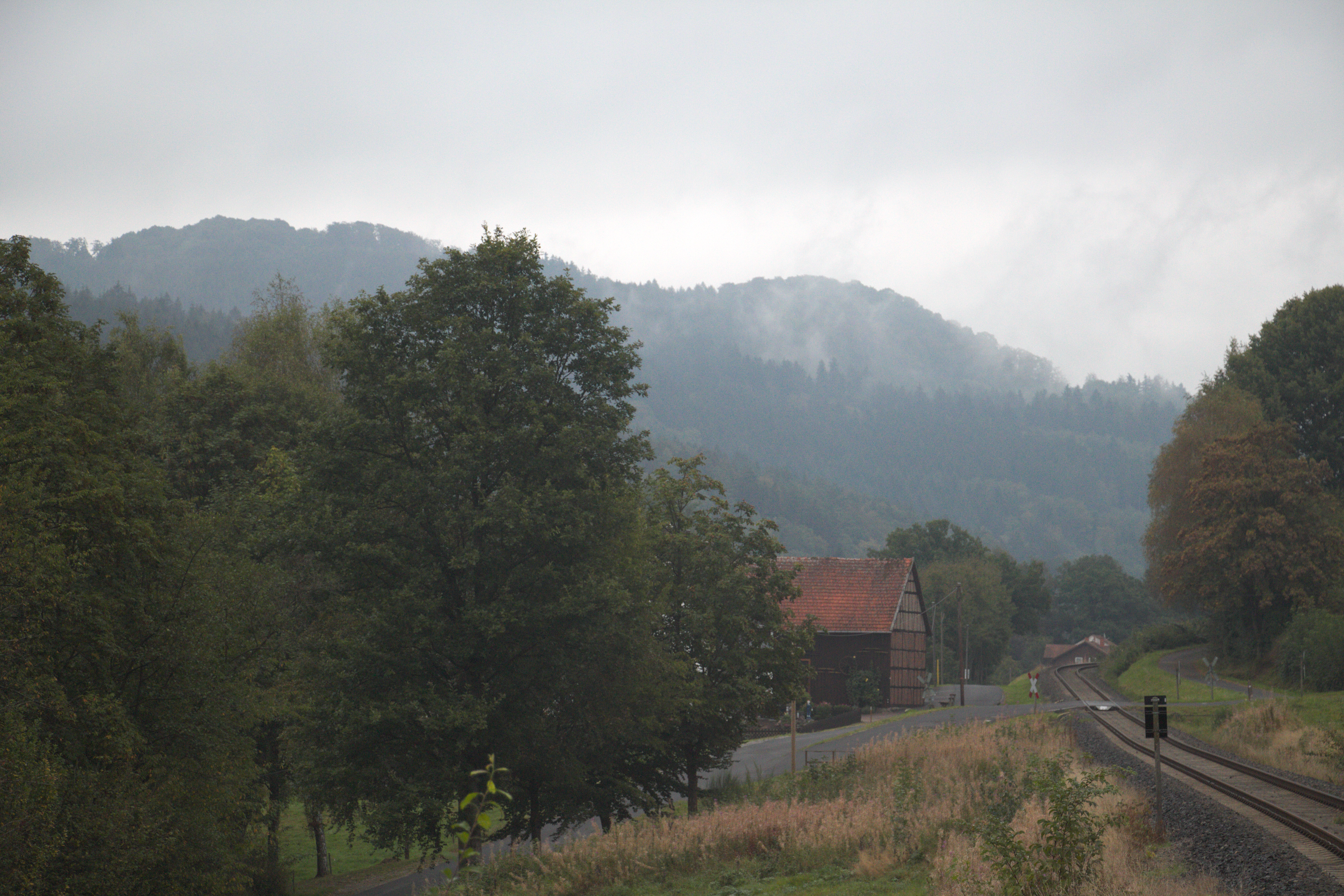 Railway line near Altenfeld Station, Gersfeld, Hesse, Germany